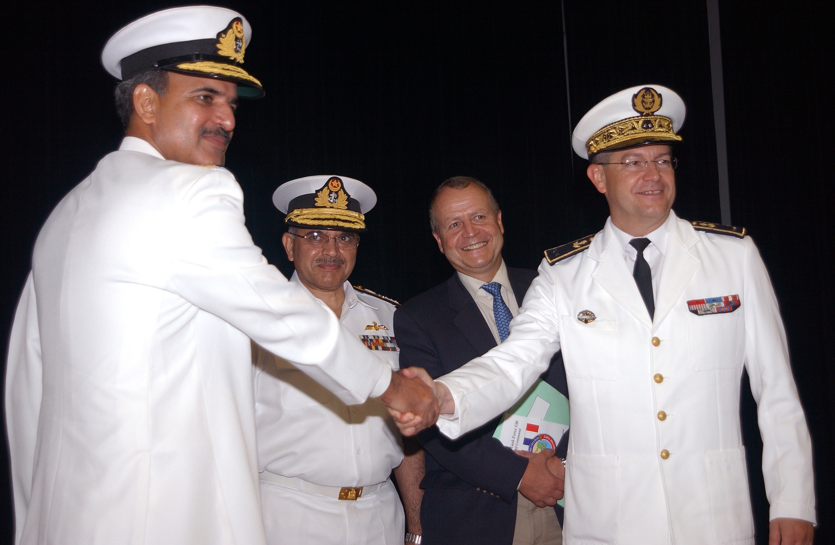 Pakistani Commodore Khan Hasham Bin Saddique is congratulated by French Rear Admiral Alain Hinden during the Combined Task Force (CTF) 150 change of command ceremony in Manama, Bahrain, Aug. 1. The ceremony marks the second time Pakistan takes the helm of CTF 150 and marks the conclusion of France's fourth time leading the coalition task force. The task force, established near the beginning of Operation Enduring Freedom, conducts maritime security operations (MSO) in the Gulf of Aden, the Gulf of Oman, the Arabian Sea, the Red Sea and the Indian Ocean. Maritime security operations help set the conditions for security and stability in the maritime environment and complements the counter-terrorism and security efforts in regional nations' coastal waters. Coalition forces also conduct MSO under international maritime conventions to ensure security and safety in international waters so that commercial shipping and fishing can occur safely in the region.